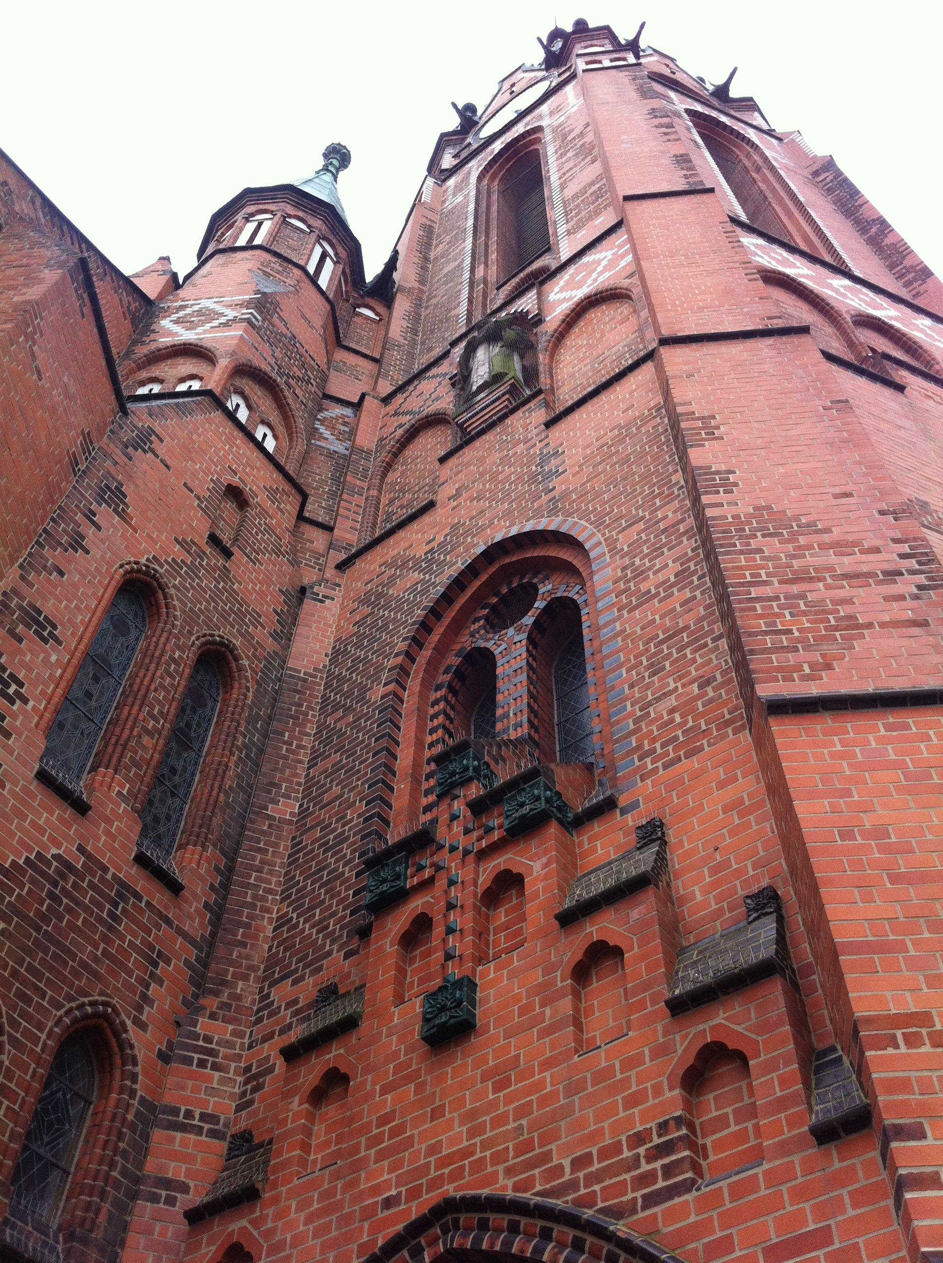 The neo-Gothic tower of the St. Marien church in Winsen (Luhe)